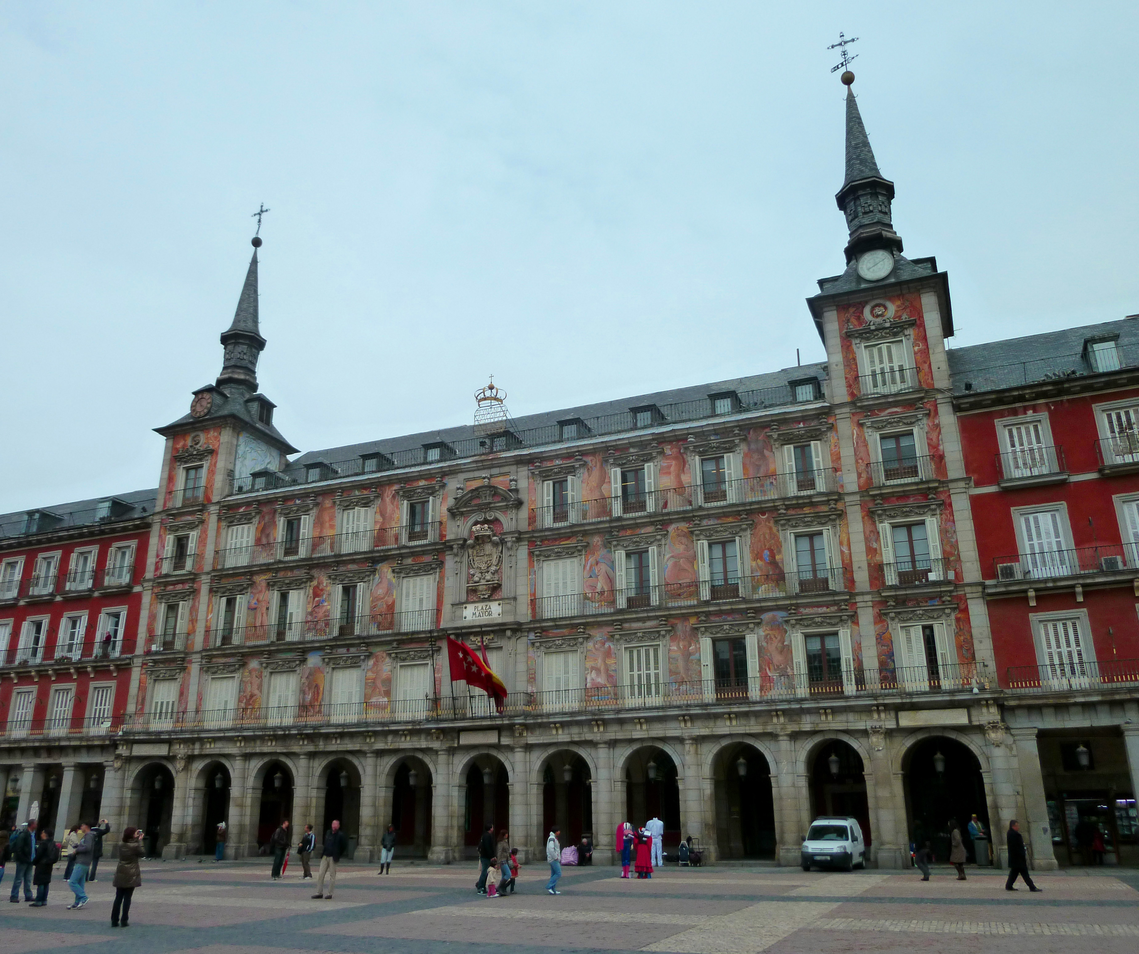 View of Casa de la Panadería (building) at Plaza Mayor (square) in Madrid (Spain).